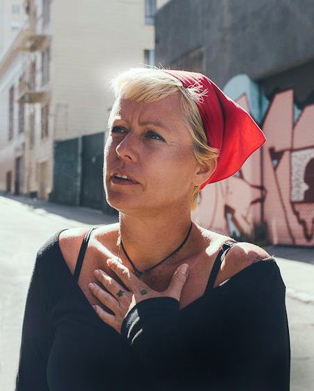 An Iconic portrait of Lydia Emily